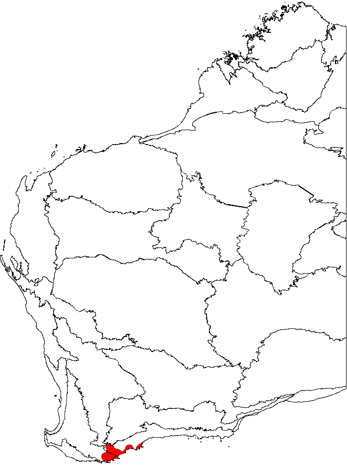 This is a map of Western Australia, showing the distribution of Banksia dryandroides (Dryandra-leaved Banksia) superimposed on a background of the IBRA 6.1 biogeographic regions.